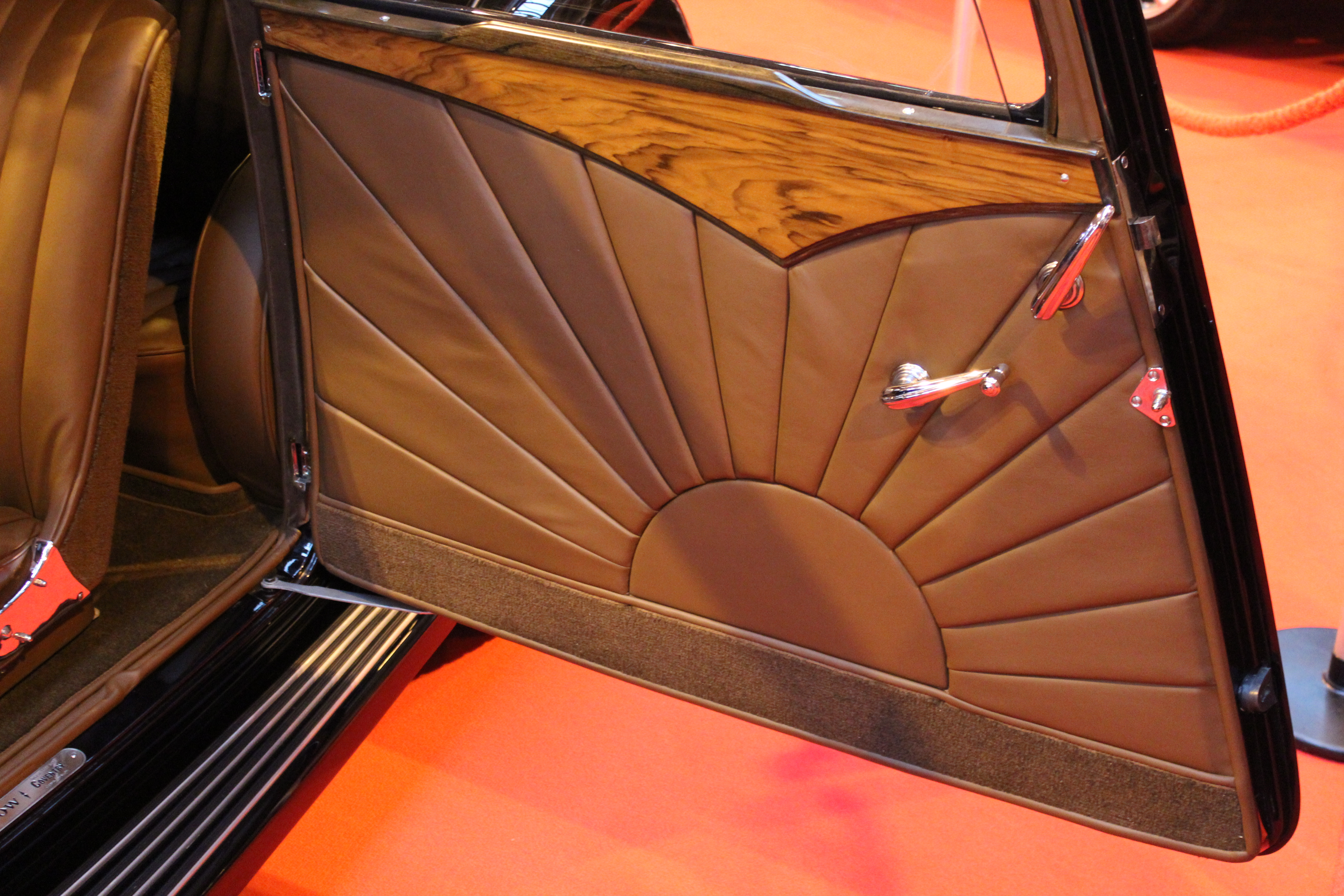 1933 SS One 16 HP fixed head coupé interior Birmingham NEC classic car show 2014